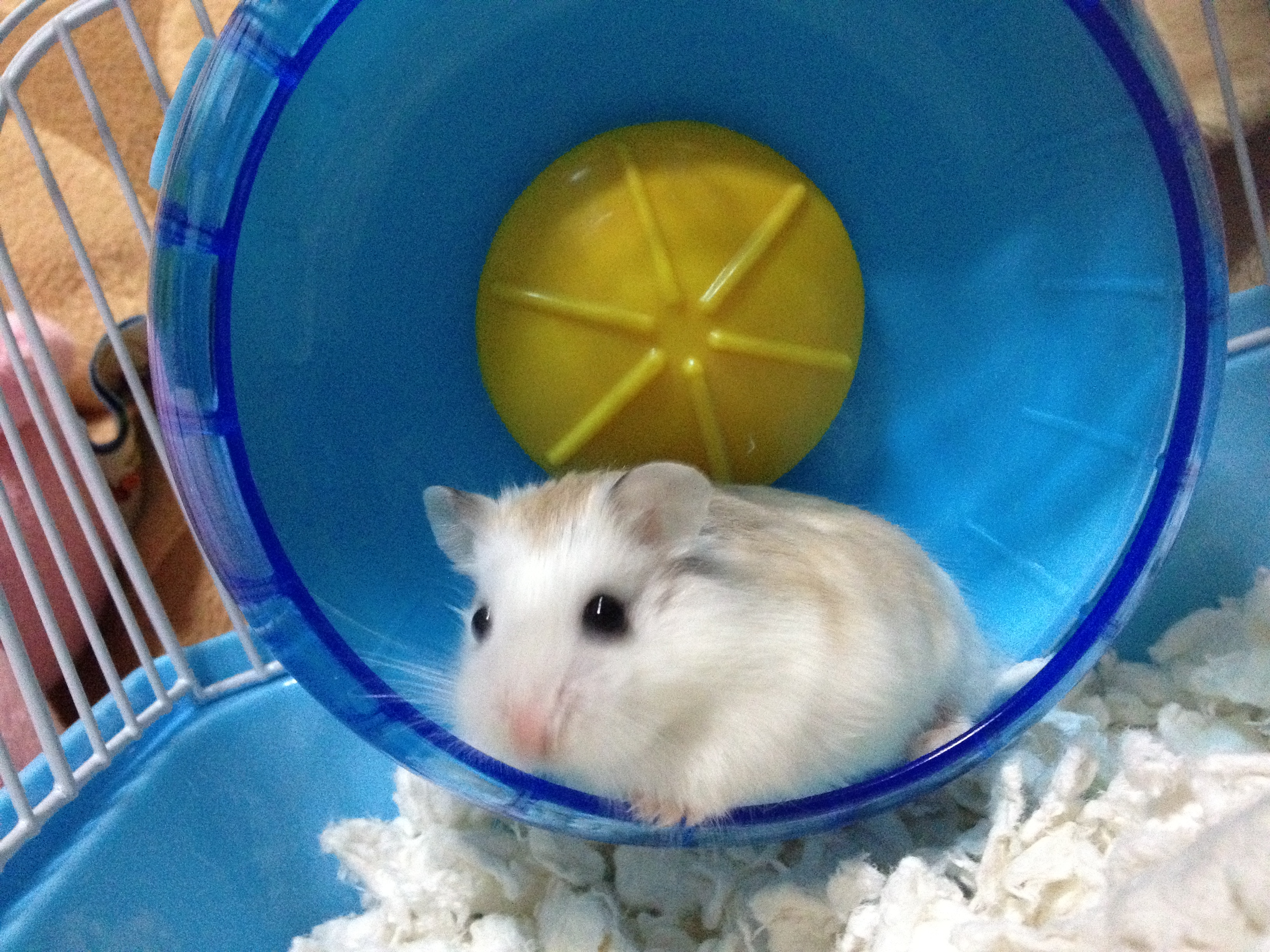 My white-face / husky roborovski dwarf hamster, Ichigo, on the hamster wheel.